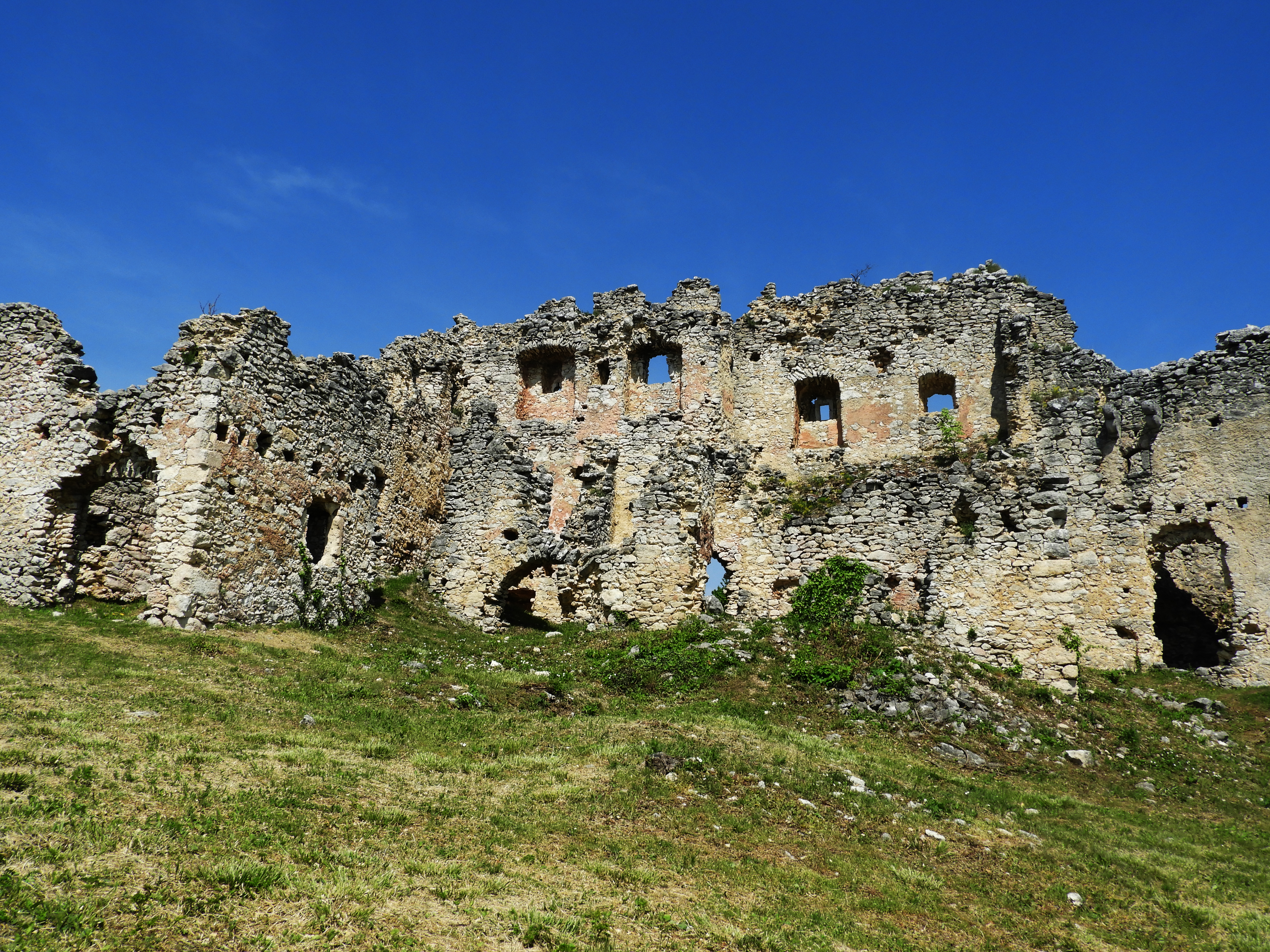 Milengrad -Budinščina